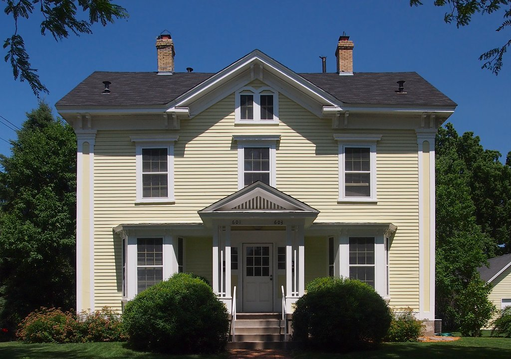 Horatio P. Van Cleve House, 603 5th St SE, Minneapolis, Minnesota, USA. Viewed from the southwest.